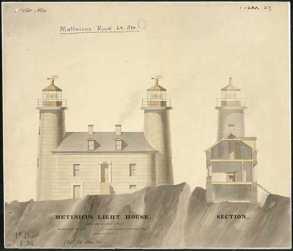 "Matinicus Light House" Designed by Alexander Parris Drawn by Brown and Hastings, engineers, March 28, 1848